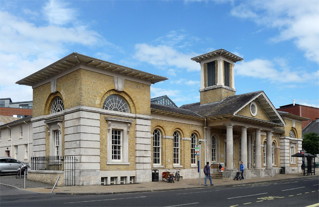 Former Corn Exchange, Jewry Street, Winchester